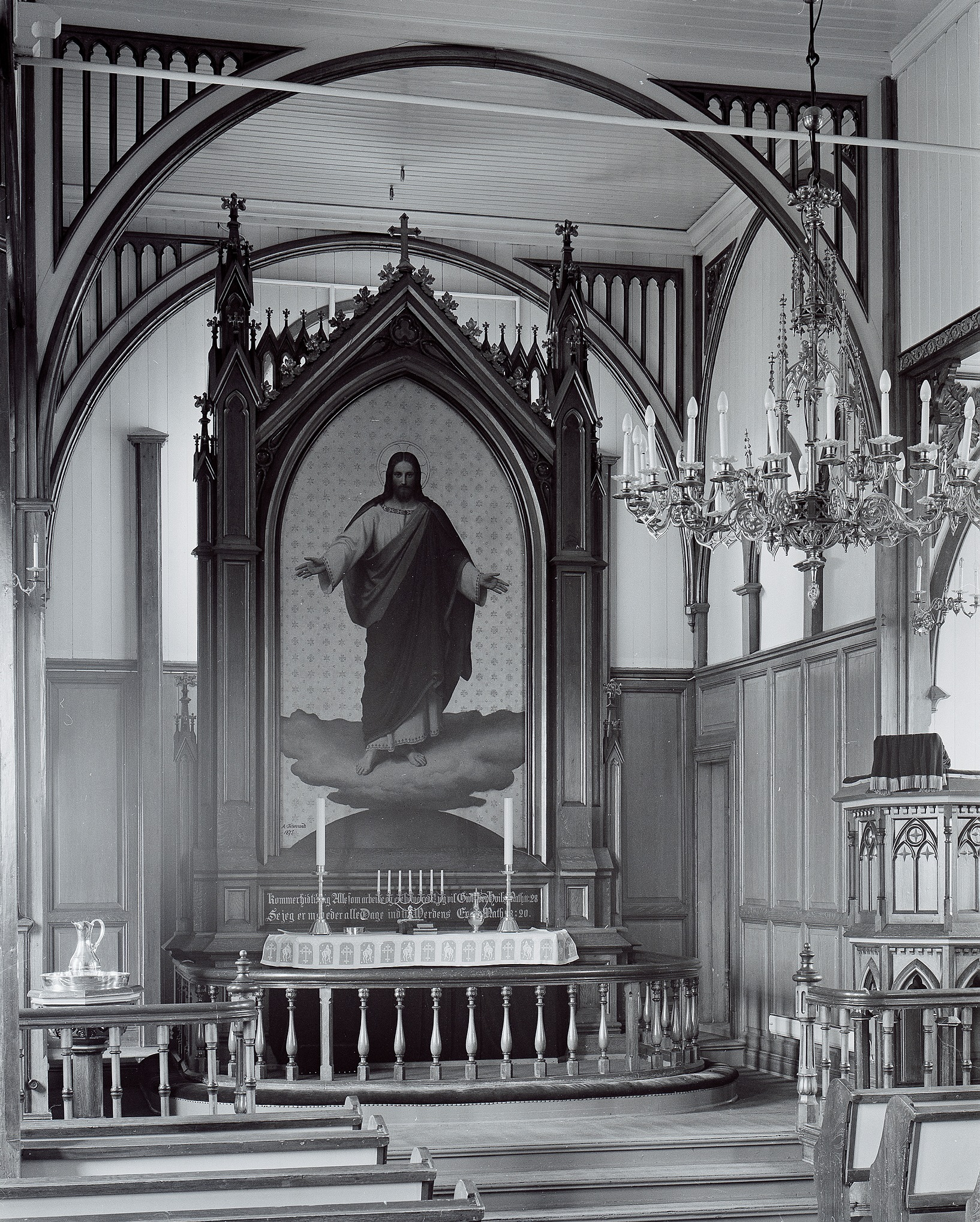 Koret i Tyristrand kirke med altertavlen malt av Adolph Tidemand